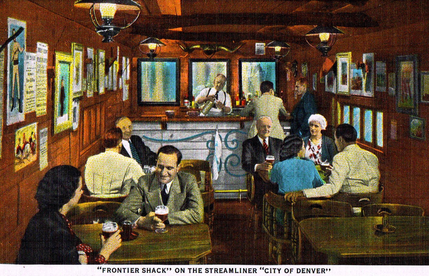 Postcard depiction of the "Frontier Shack" lounge car of the Union Pacific train "City of Denver". This appears to be the first version of the lounge car after the train was streamlined. It looks like this car was re-done into File:City of Denver club car Union Pacific.JPG "The Pub" in the 1950s.